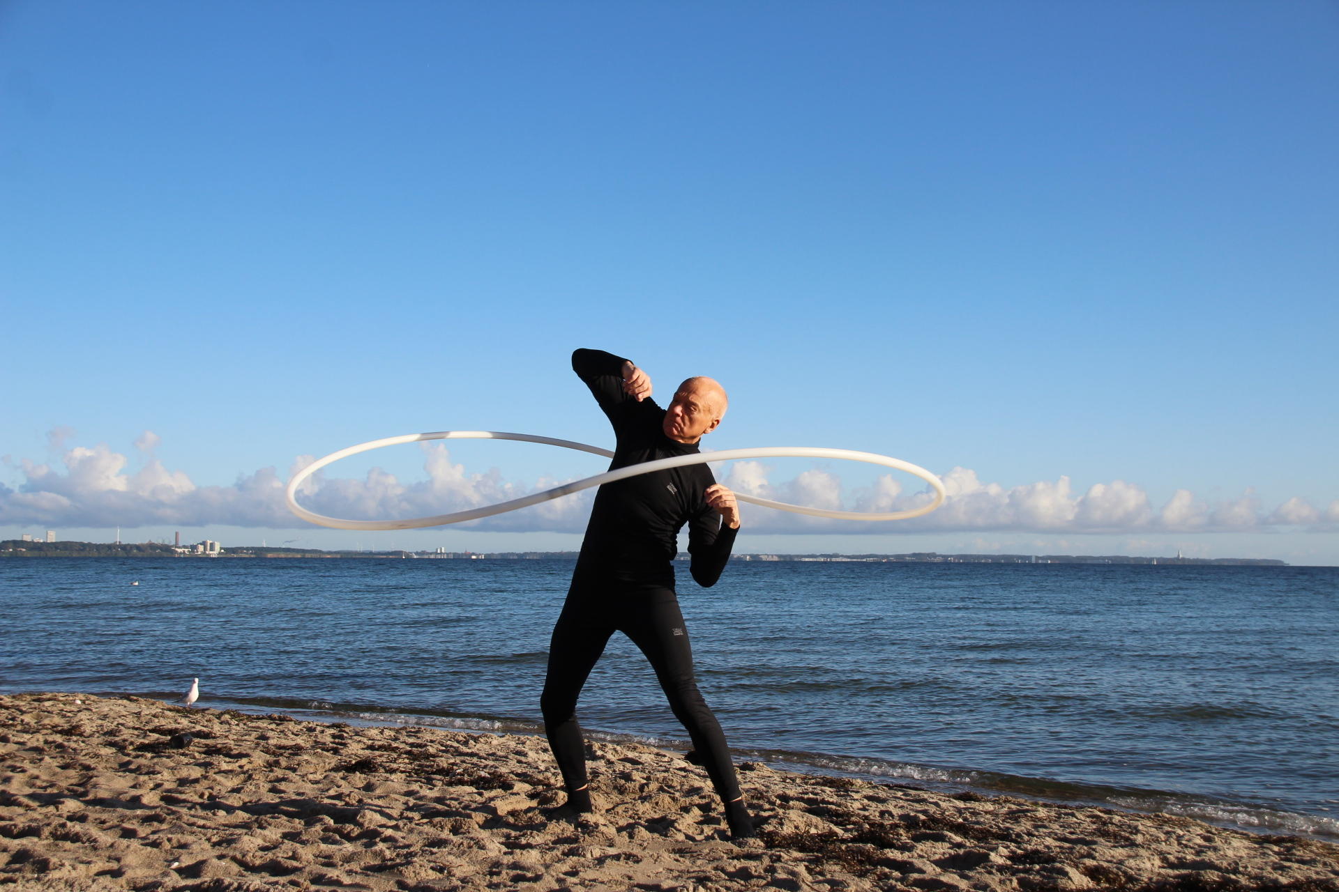 Norbert Denef, Scharbeutz Beach, at the Baltic Sea, with his denefhoop. 2017.